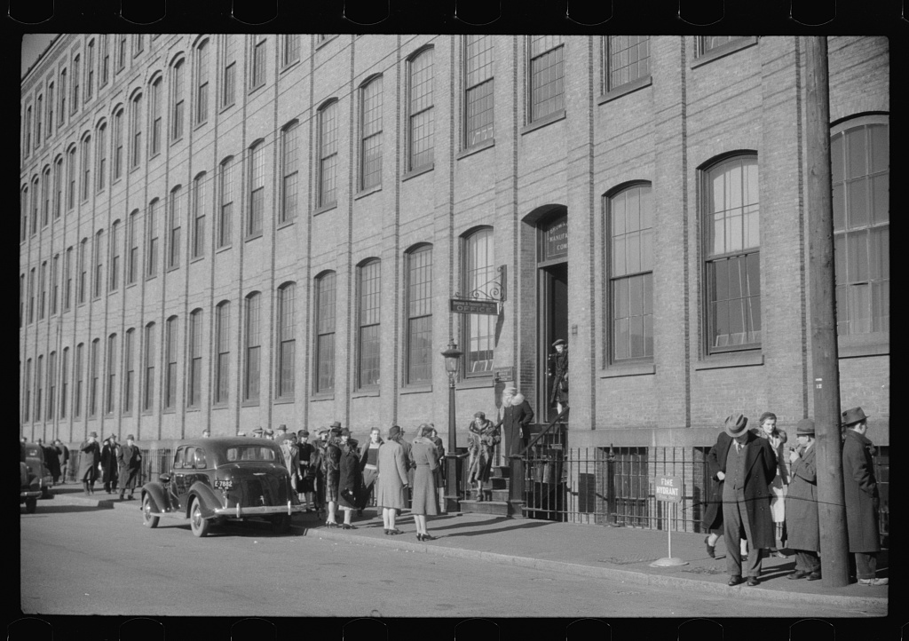 Employees leaving Brown and Sharpe Manufacturing Company, Providence, Rhode Island. December 1940. LOC number LC-USF33-020748. Photo by Jack Delano.